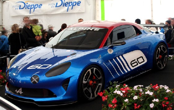 Alpine Celebration 2015 Prototype